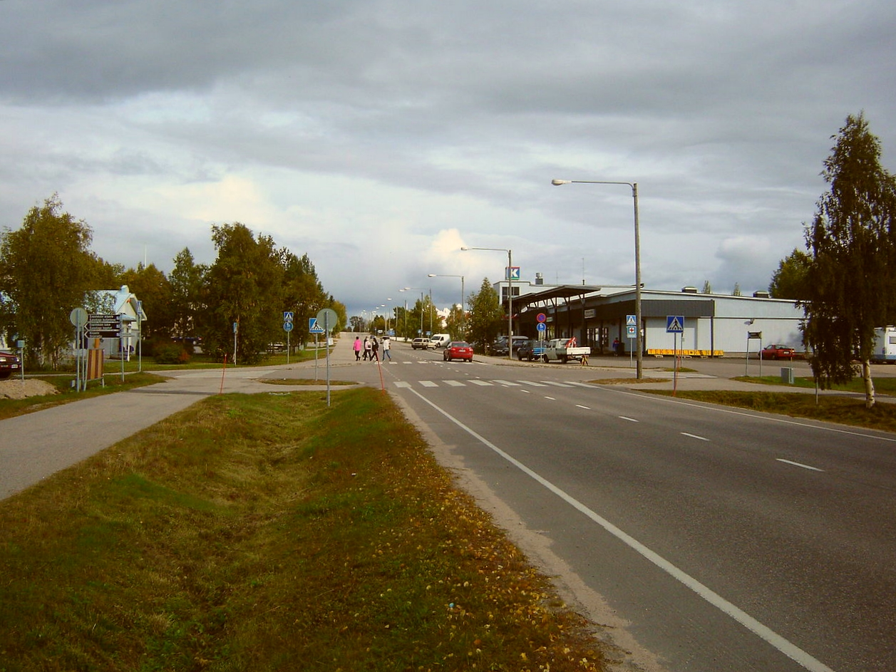 Centre of the municipality of Enontekiö in the village of Hetta, Lapland, Finland